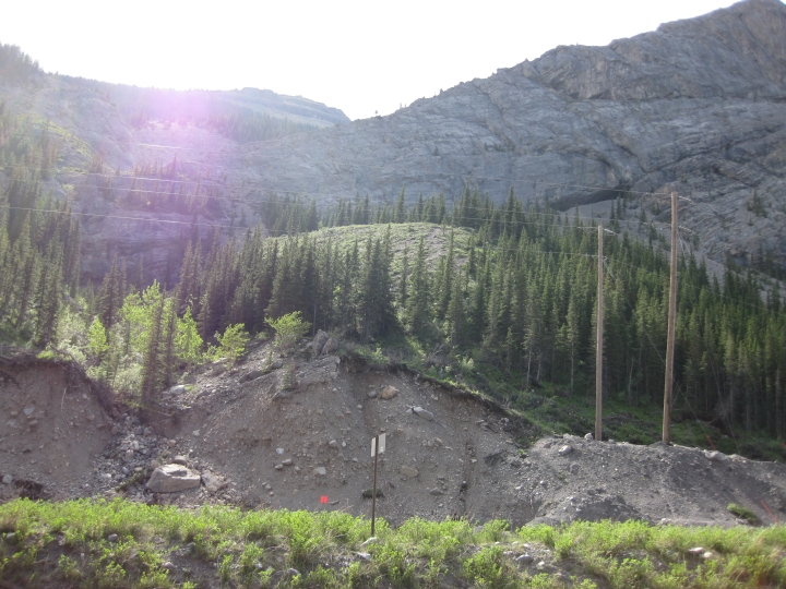 One of the many Cadomin caves. The cave in this photo is on the mountain in the top right of the photo. Many of the caves require strenuous climbing on steep rock faces to reach. Beneath the purple area of this photo is a waterfall section, though in this photo taken July 2011 this waterfall was dry.